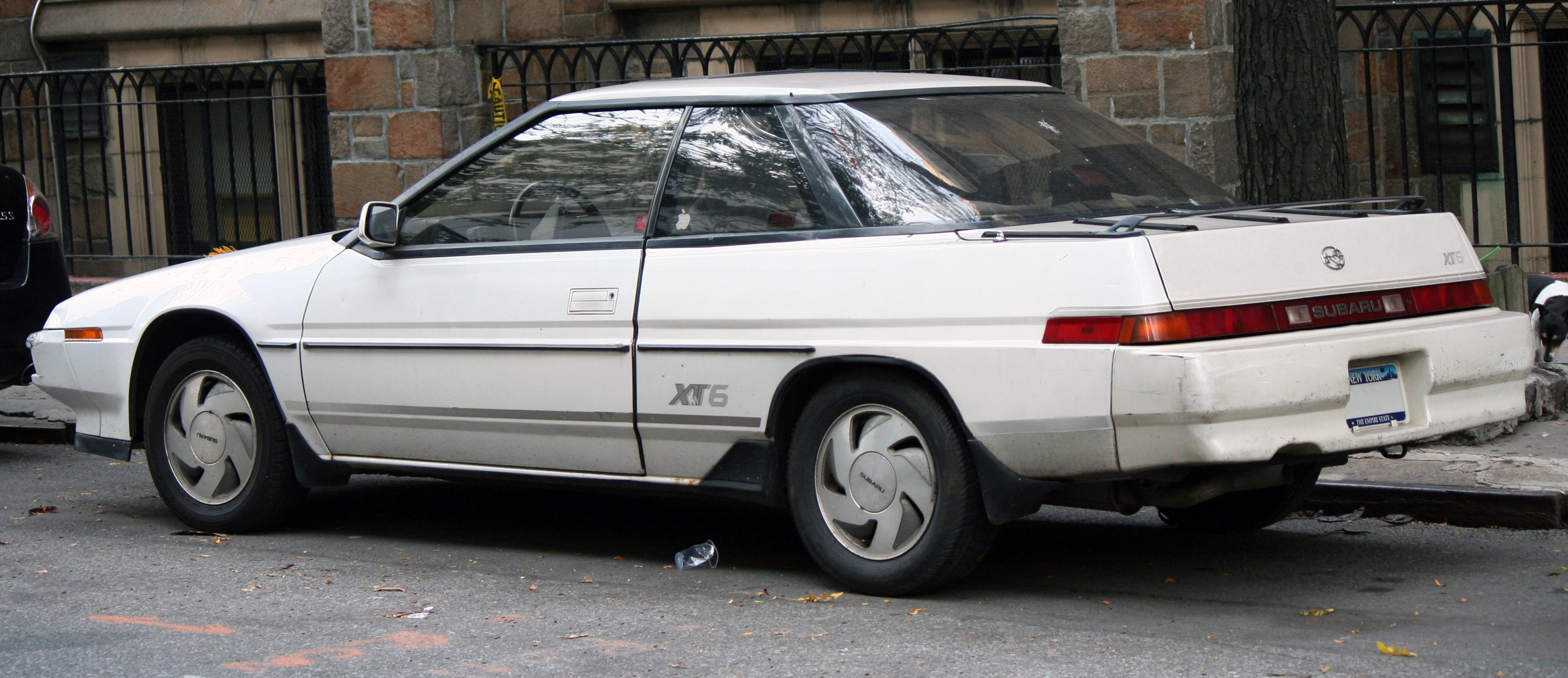 Rear view of 1988 Subaru XT6